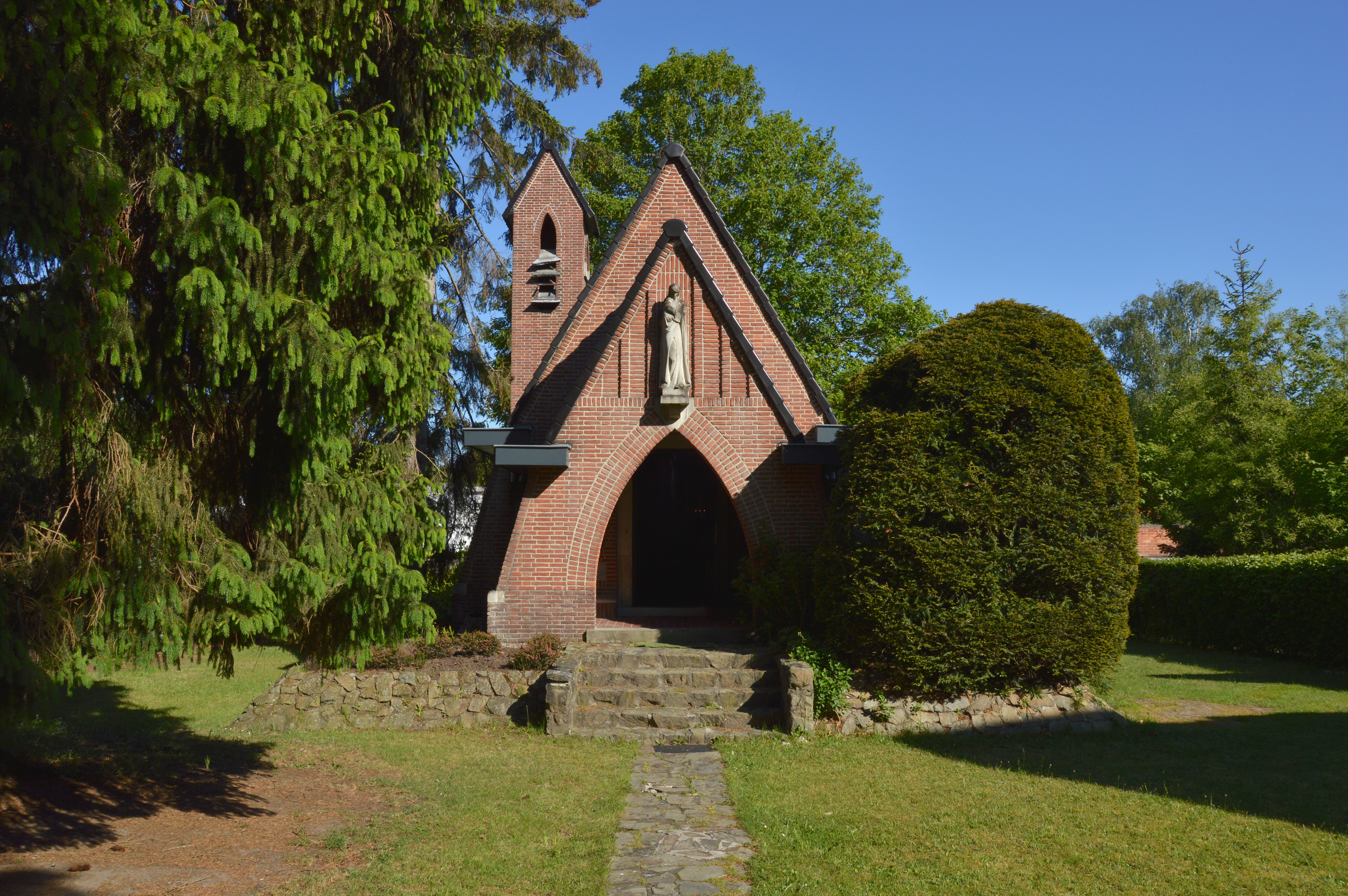 Facade of the Jabeke chapel in Wetteren